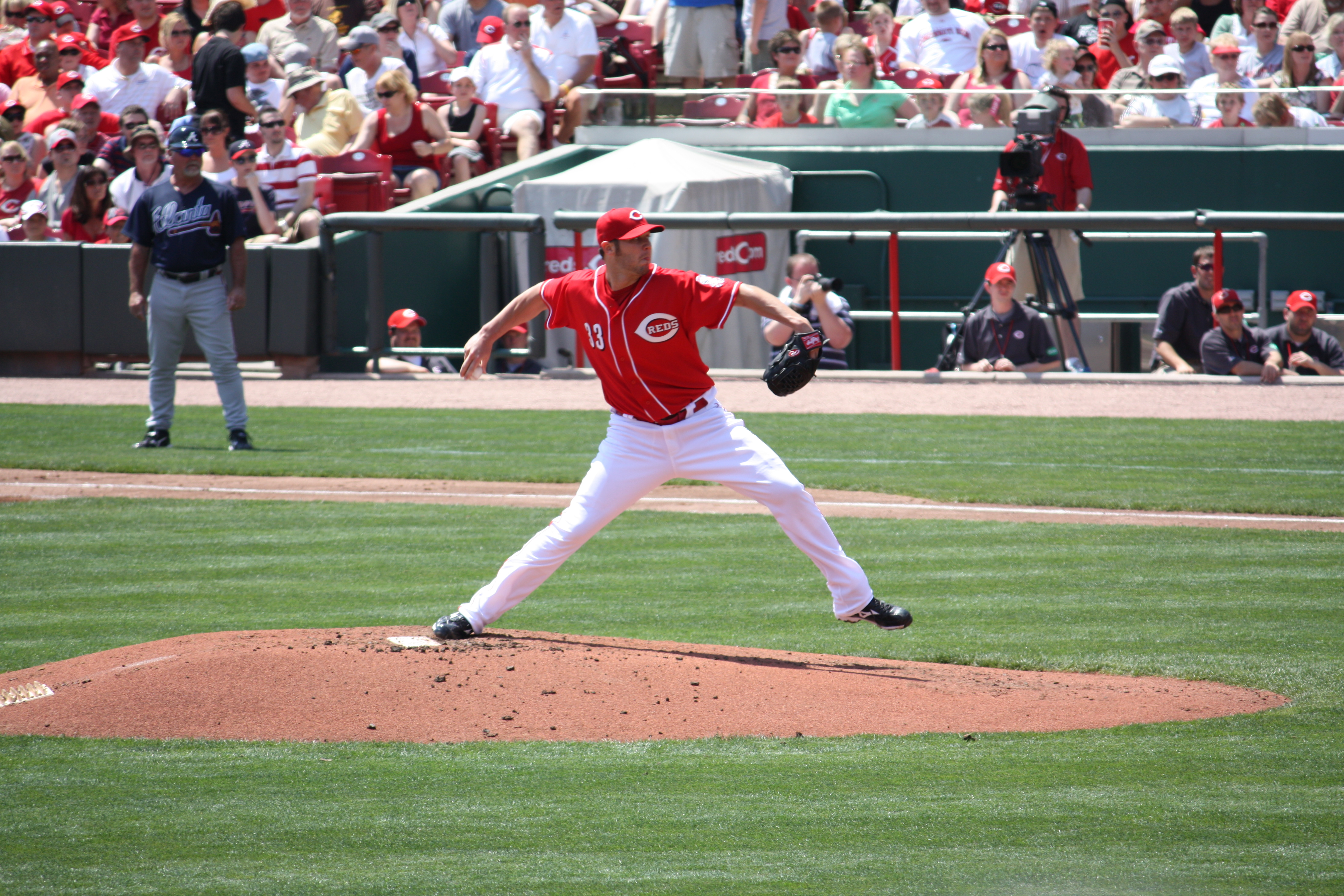 Baseball player Micah Owings of the Cincinnati Reds pitches against the Atlanta Braves at Great American Ballpark, April 26th, 2009.